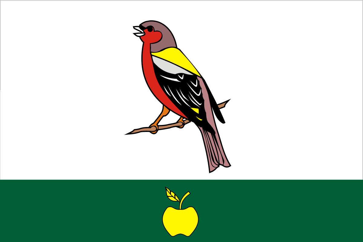 Zyablikovo (municipality in Moscow), flag